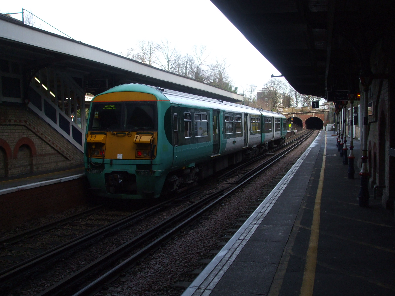 Class 456 unit 456010 calls at Denmark Hill station with an eastbound South London line service to London Bridge.